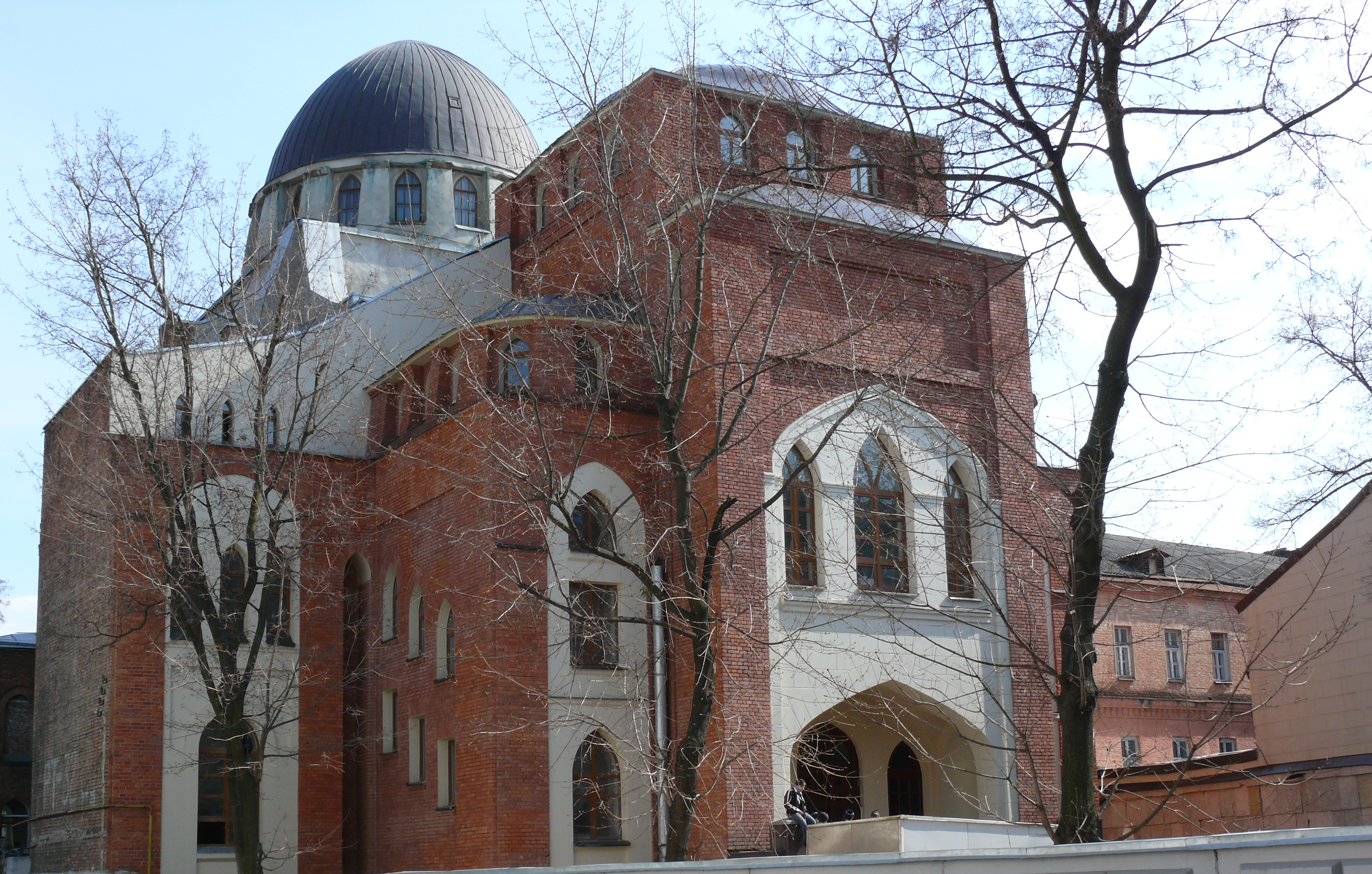 Kharkov Synagogue. 1914